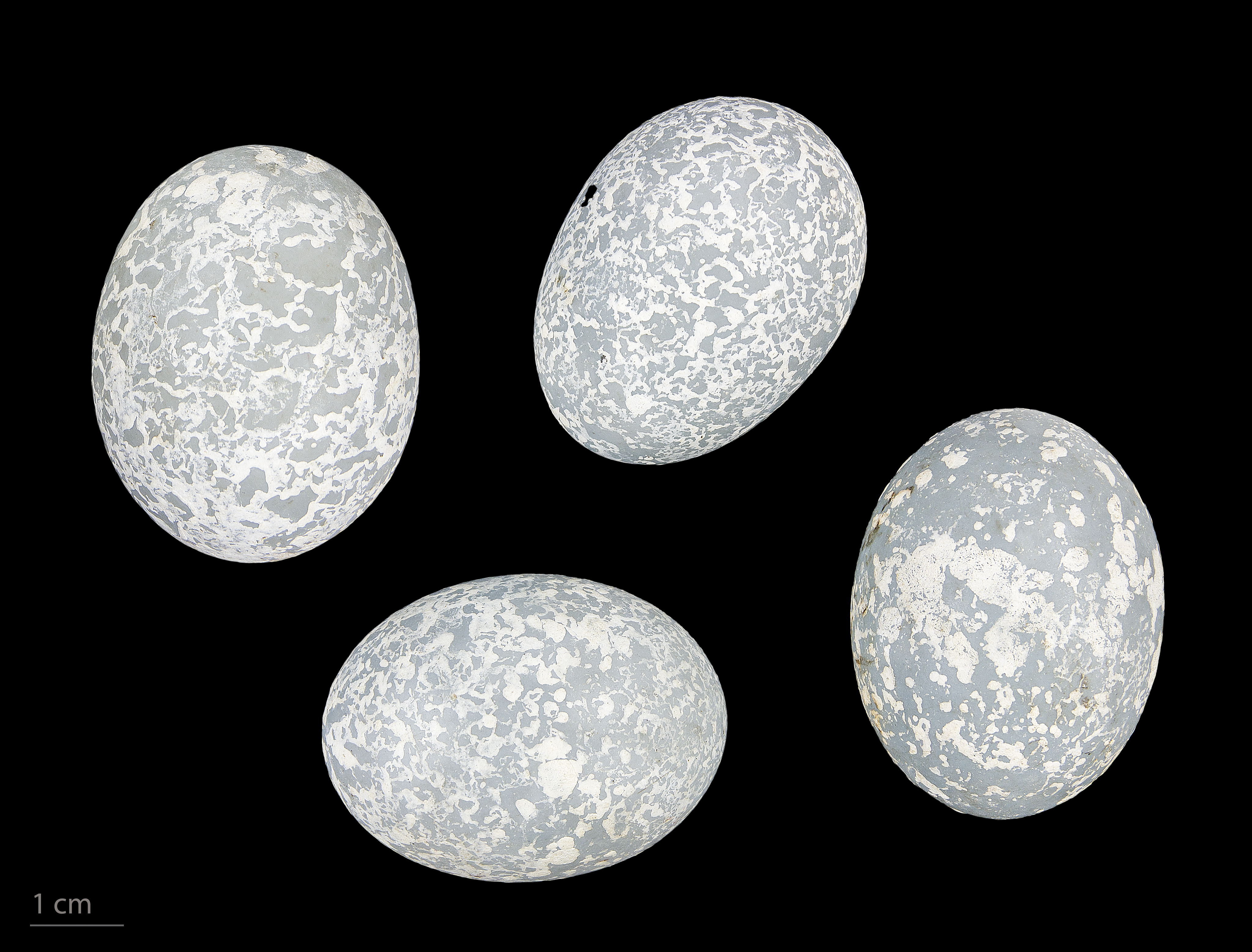 Egg of guira cuckoo Collection of Jacques Perrin de Brichambaut.